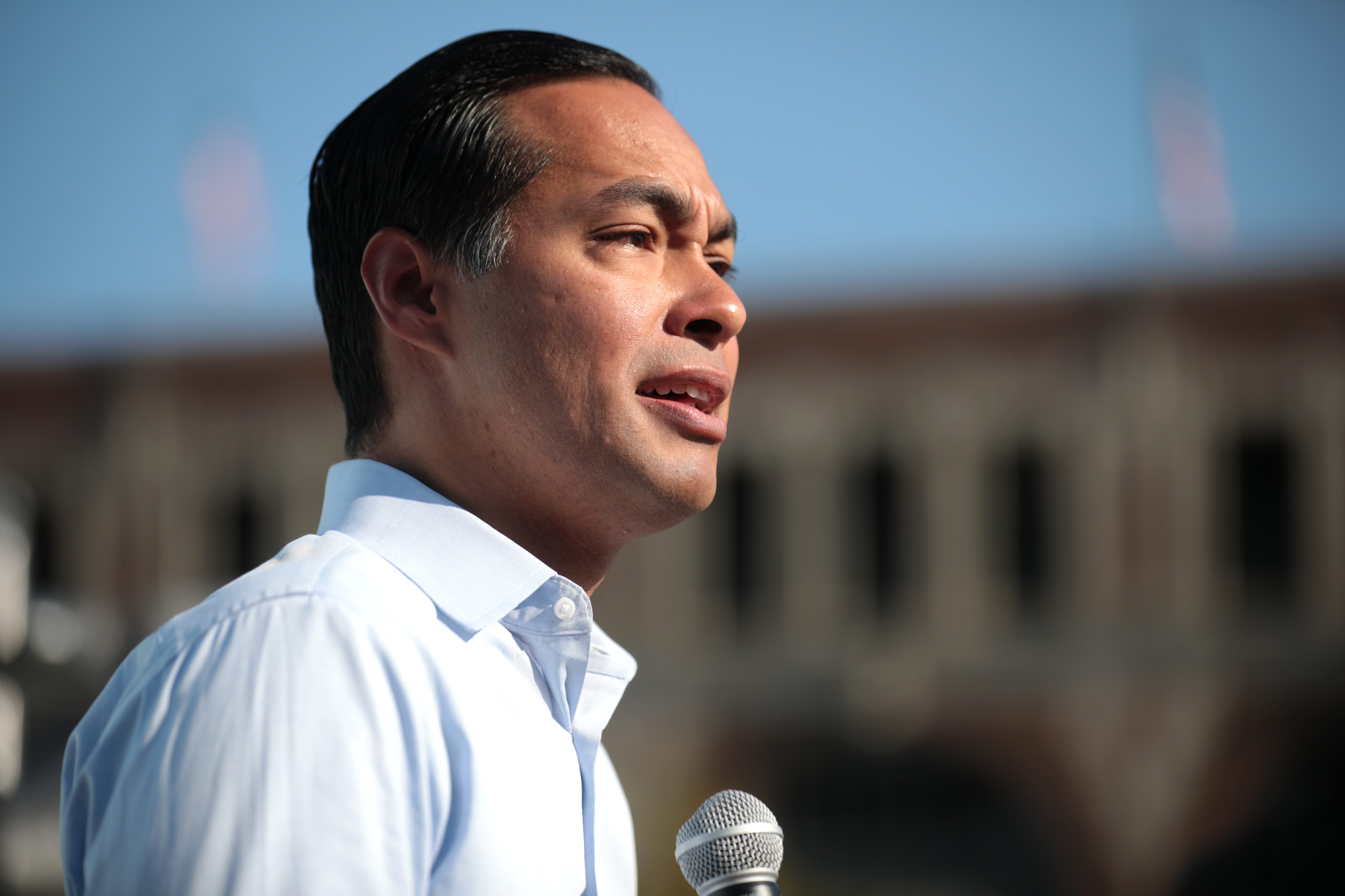 Former Secretary of Housing and Urban Development Julian Castro speaking with supporters at the Des Moines Register's Political Soapbox at the 2019 Iowa State Fair in Des Moines, Iowa.